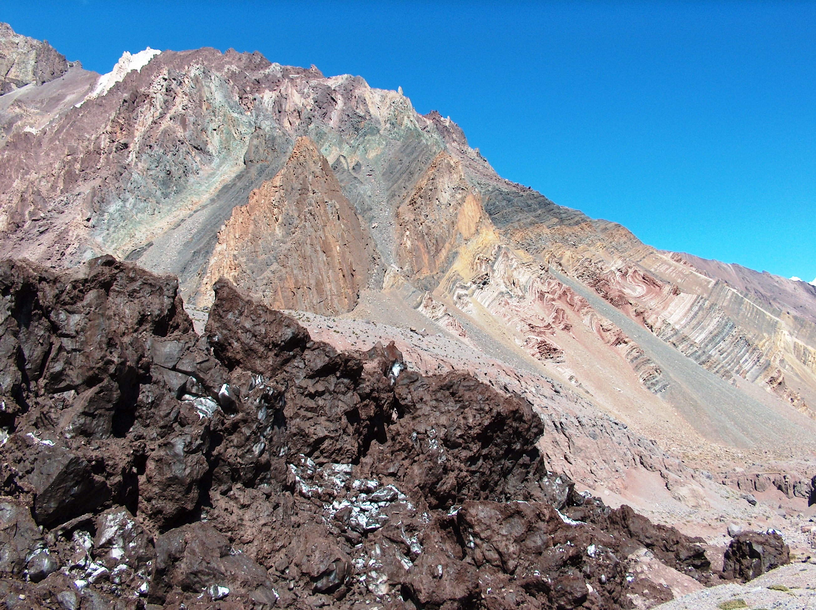 Black glacier in Horcones Inferior Valley, Aconcagua Provincial Park, Argentina.